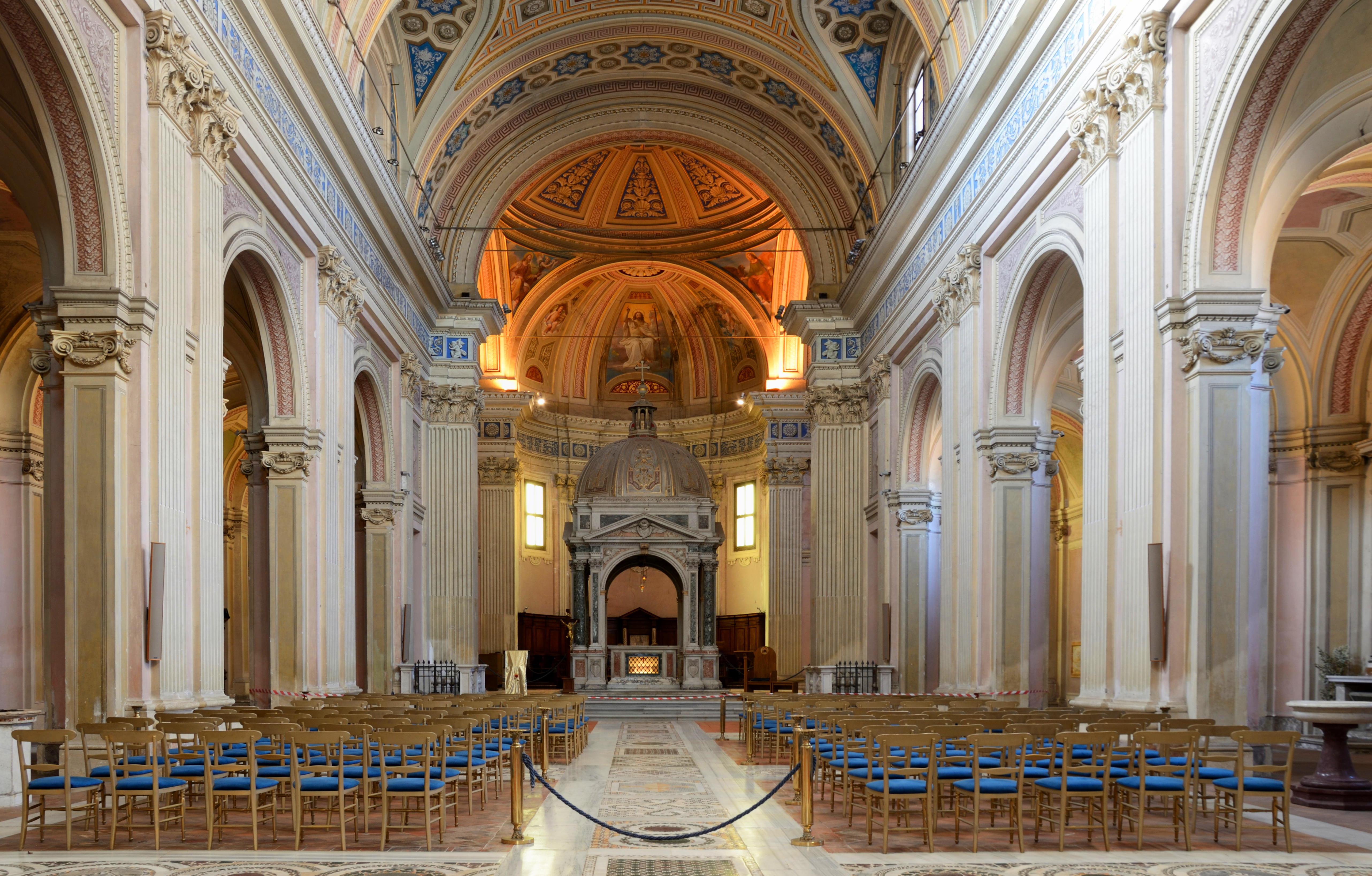 Santi Bonifacio e Alessio (Rome) - Interior